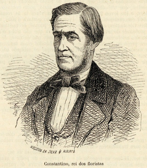 Constantino José Marques de Sampaio e Melo (1802-1873), known as the "King of the Florists" or just as "Constantino", a Portuguese florist considered one of the most notable producers of artificial flowers in the 19th century.